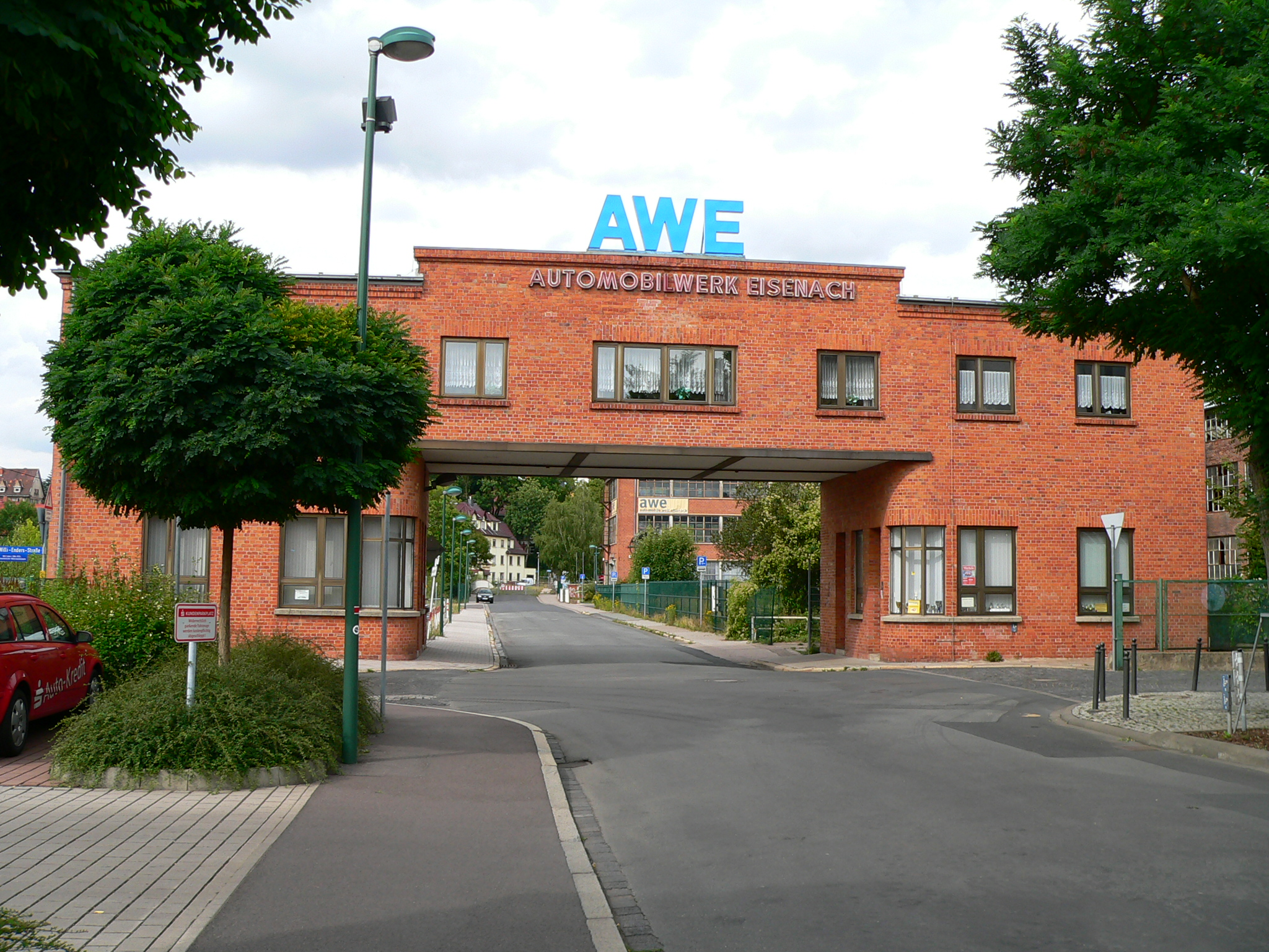 The listed gate of the Automobilwerk Eisenach - AWE.